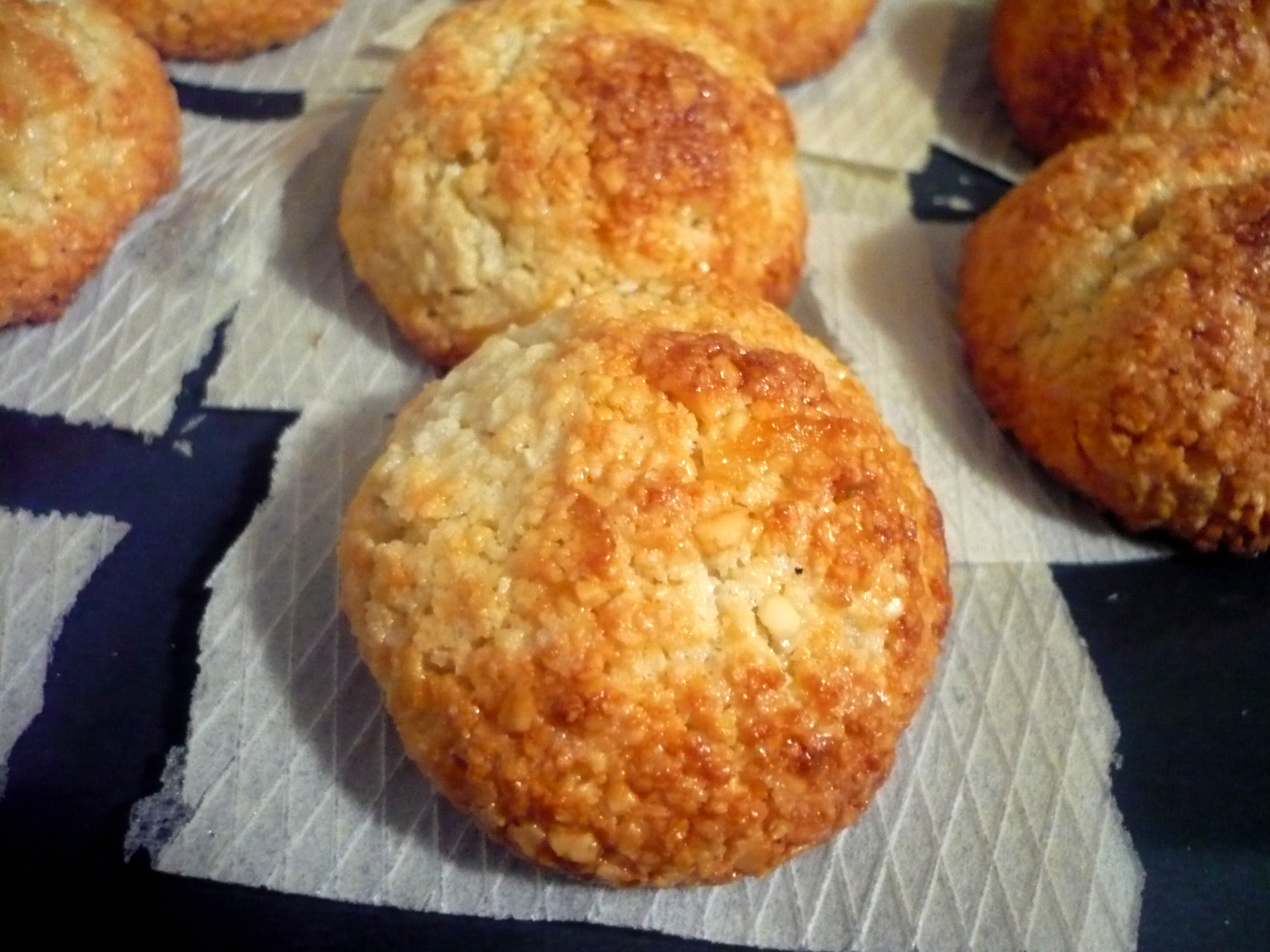 Cordiales (spanish candy)